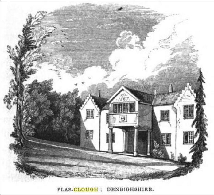 Illustration from 1839 book: The Life and Times of Sir Thomas Gresham Publisher London R. Jennings